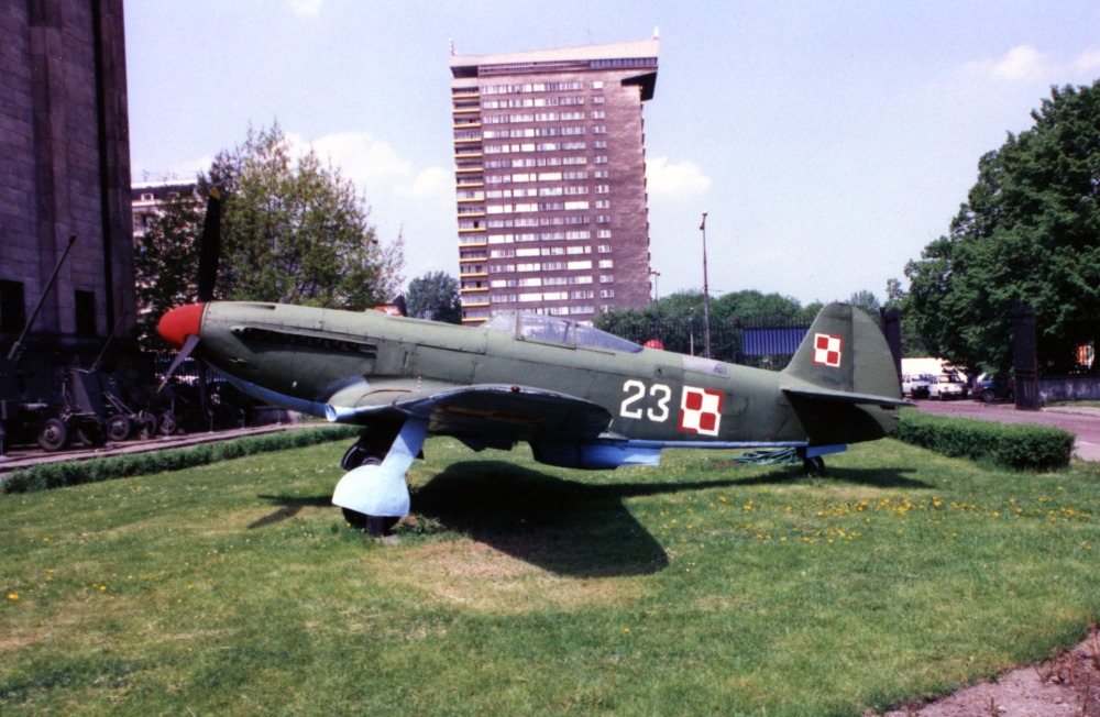 PictionID:42251614 - Title:Yakovlev Yak-9 Yakovlev Yak-9P Warsaw May98 3 - Catalog:15_003195 - Filename:15_003195.tif - --- Image from the Charles Daniels Photo Collection album "Moscow Air Museums" which contains images Mr. Daniels took while visiting Russia----PLEASE TAG this image with any information you know about it, so that we can permanently store this data with the original image file in our Digital Asset Management System.----SOURCE INSTITUTION: San Diego Air and Space Museum Archive